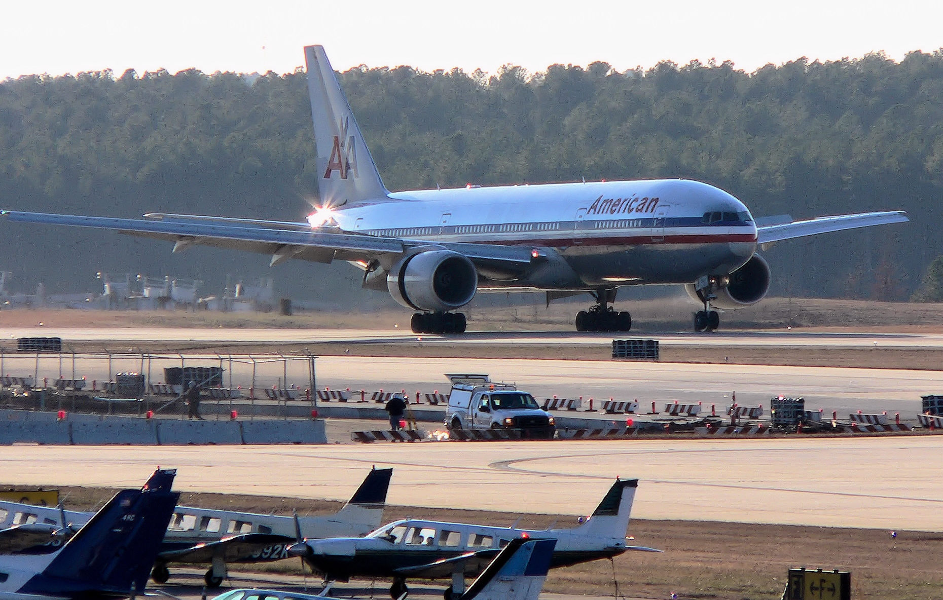 An American Airlines Boeing 777-200ER airliner touches down on the 5L runway at Raleigh-Durham International. This flight originated from London Heathrow Airport. Photo taken with a Panasonic Lumix DMC-FZ20 from the RDU observation deck in Wake County, NC, USA.